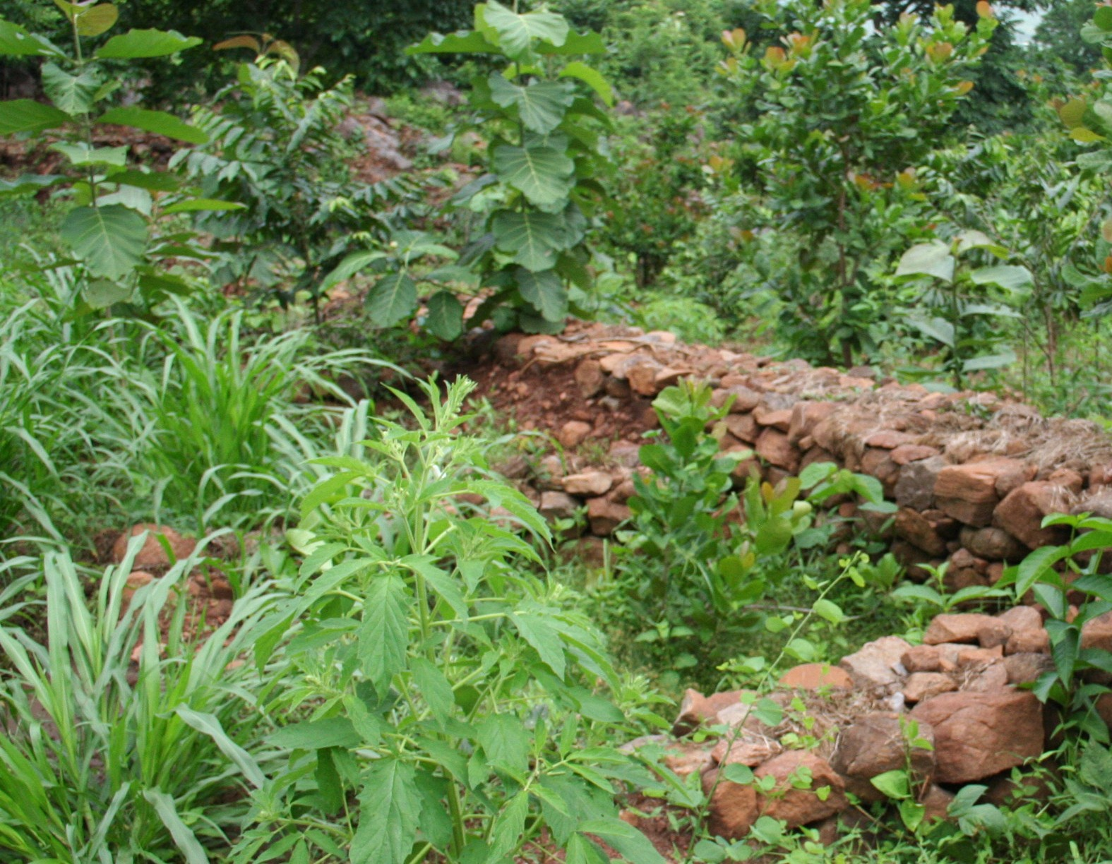 Walls constructed around diverse crops to avoid storm water run-off during monsoon season in Andhra Pradesh, India